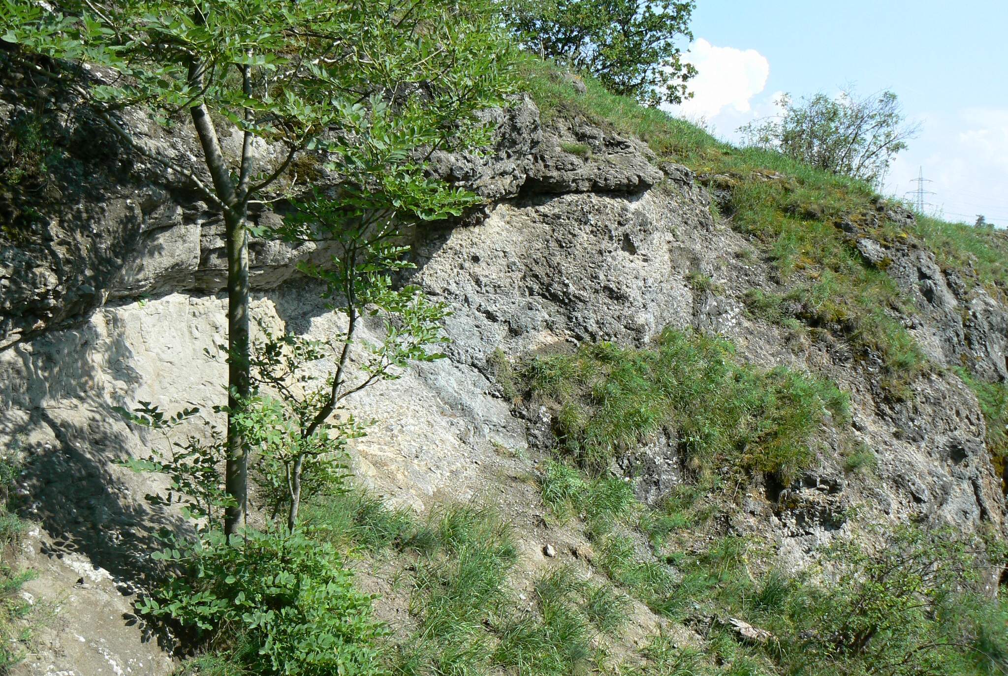 Rock near Radechov in Chomutov District, in nature park Doupovská pahorkatina, Czech Republic